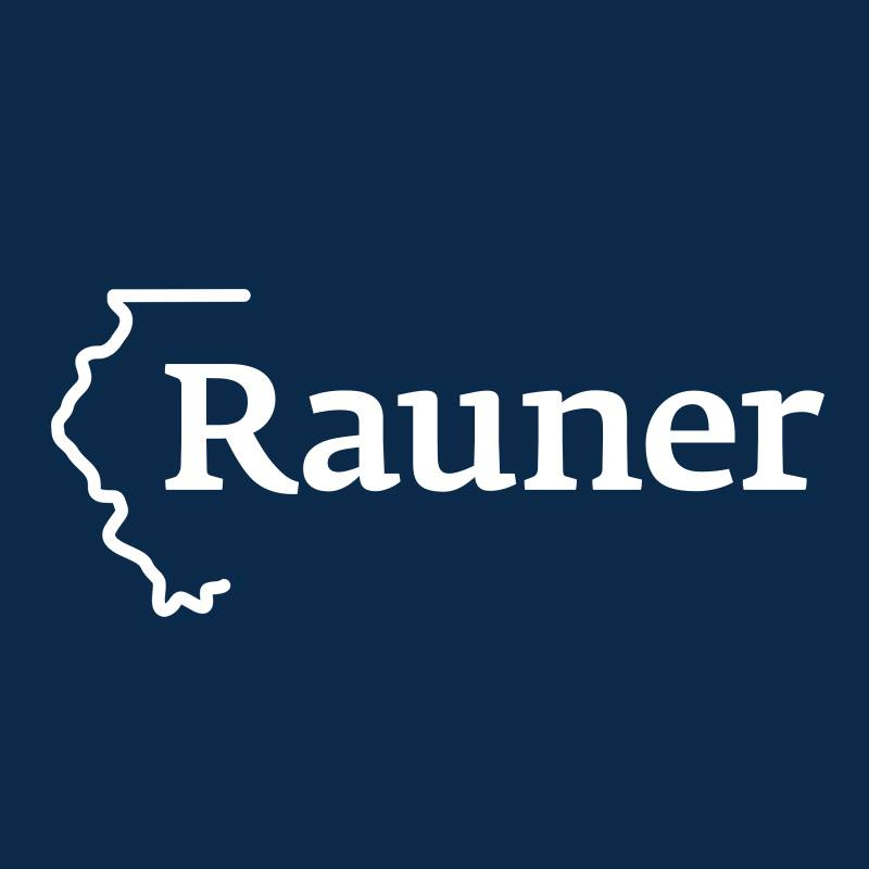 Bruce Rauner logo